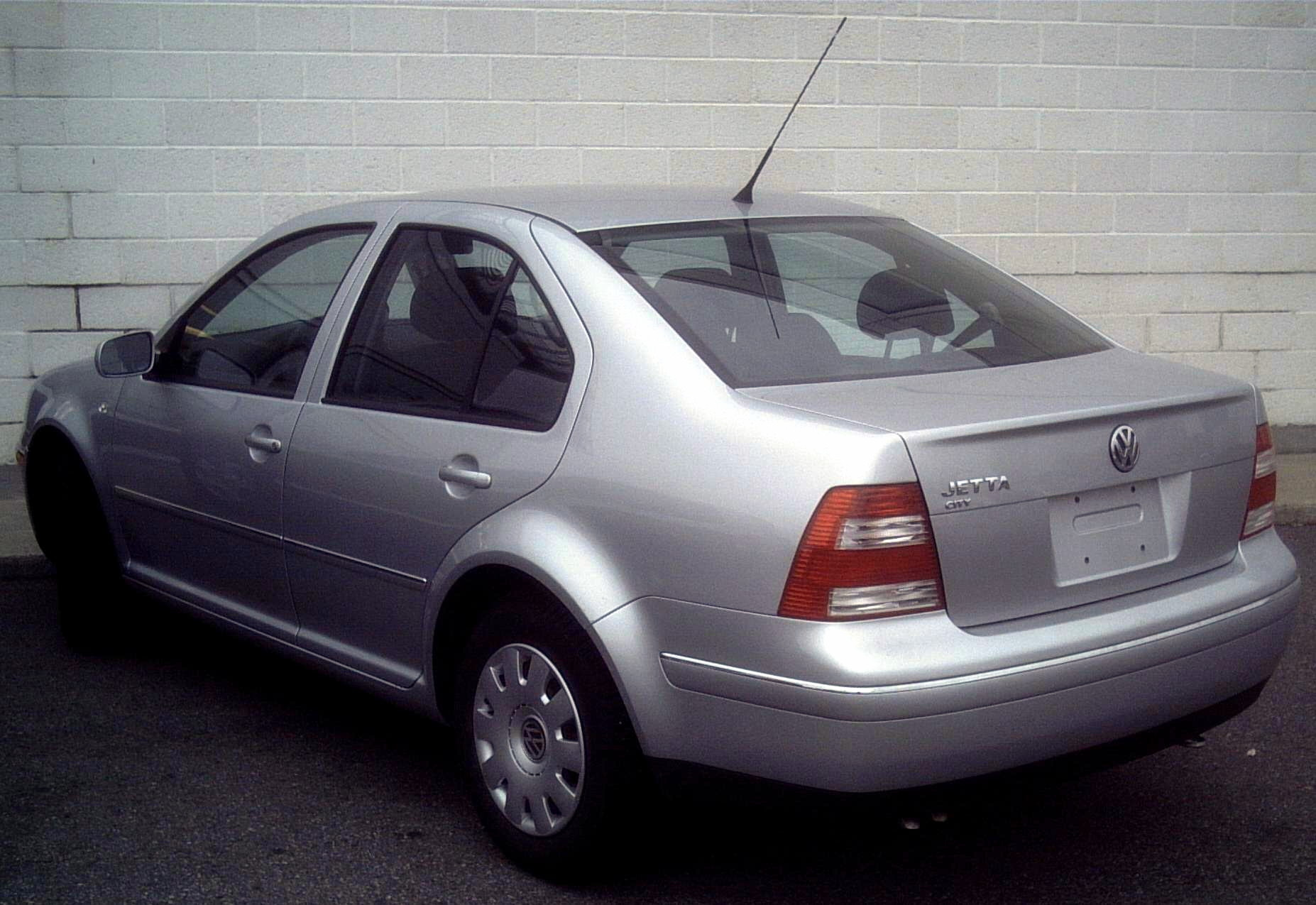 2007 Volkswagen Jetta City photographed in Montreal, Quebec, Canada.